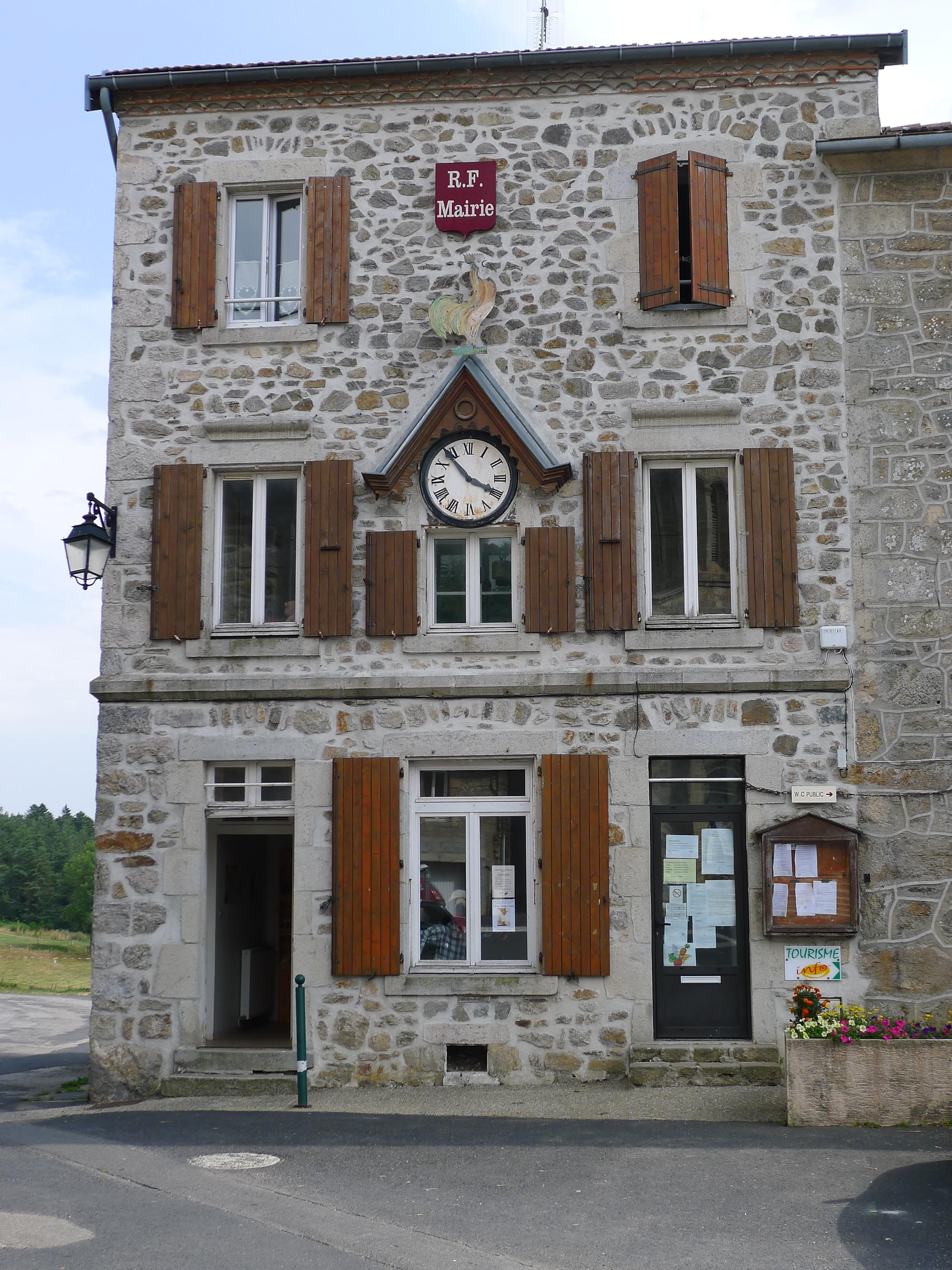 Town hall of Saint-André-en-Vivarais - Ardèche - France